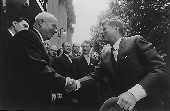 US President John F. Kennedy shaking hands with Soviet leader Nikita Khrushchev, 3 June 1961